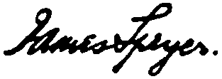 Signature of New York City banker James Speyer